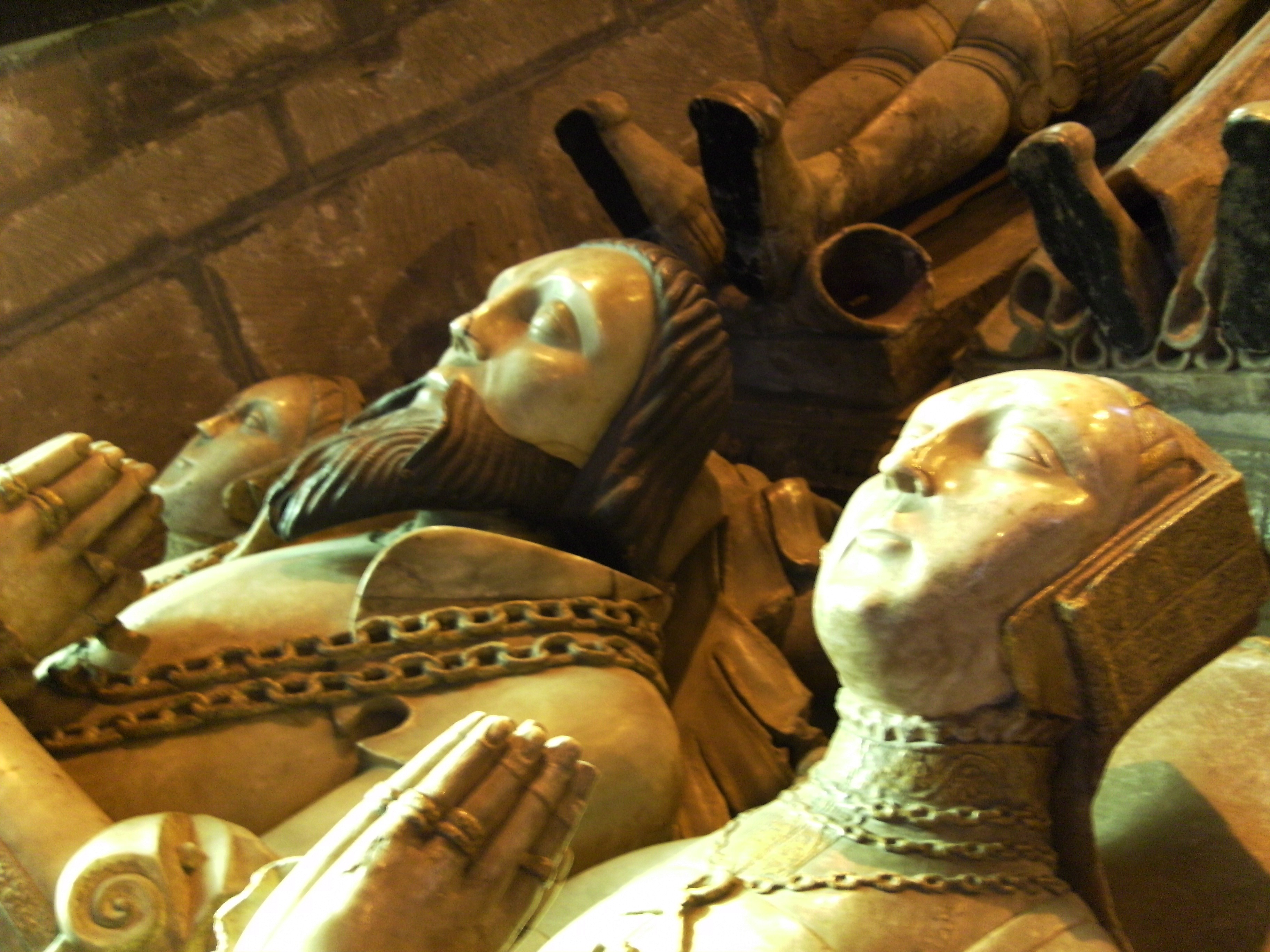 Sir John Giffard (died 1556) of Chillington Hall, Brewood, Staffordshire., with his wives Jane Horde and Elizabeth Gresley. Brewood parish church.